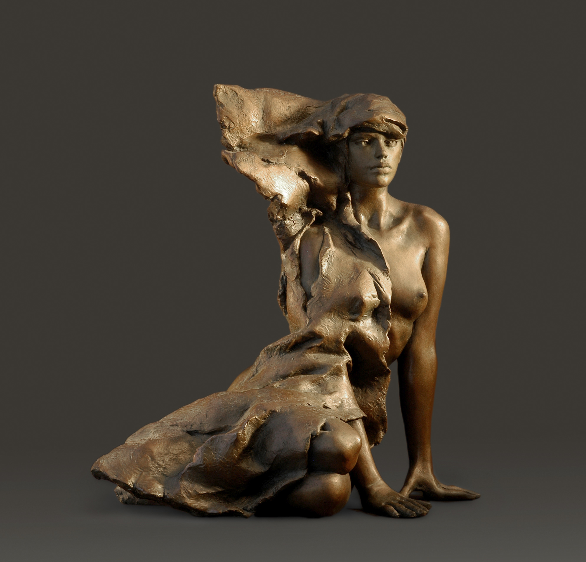 Sculpture in bronze created by Jacques Le Nantec in 2000.